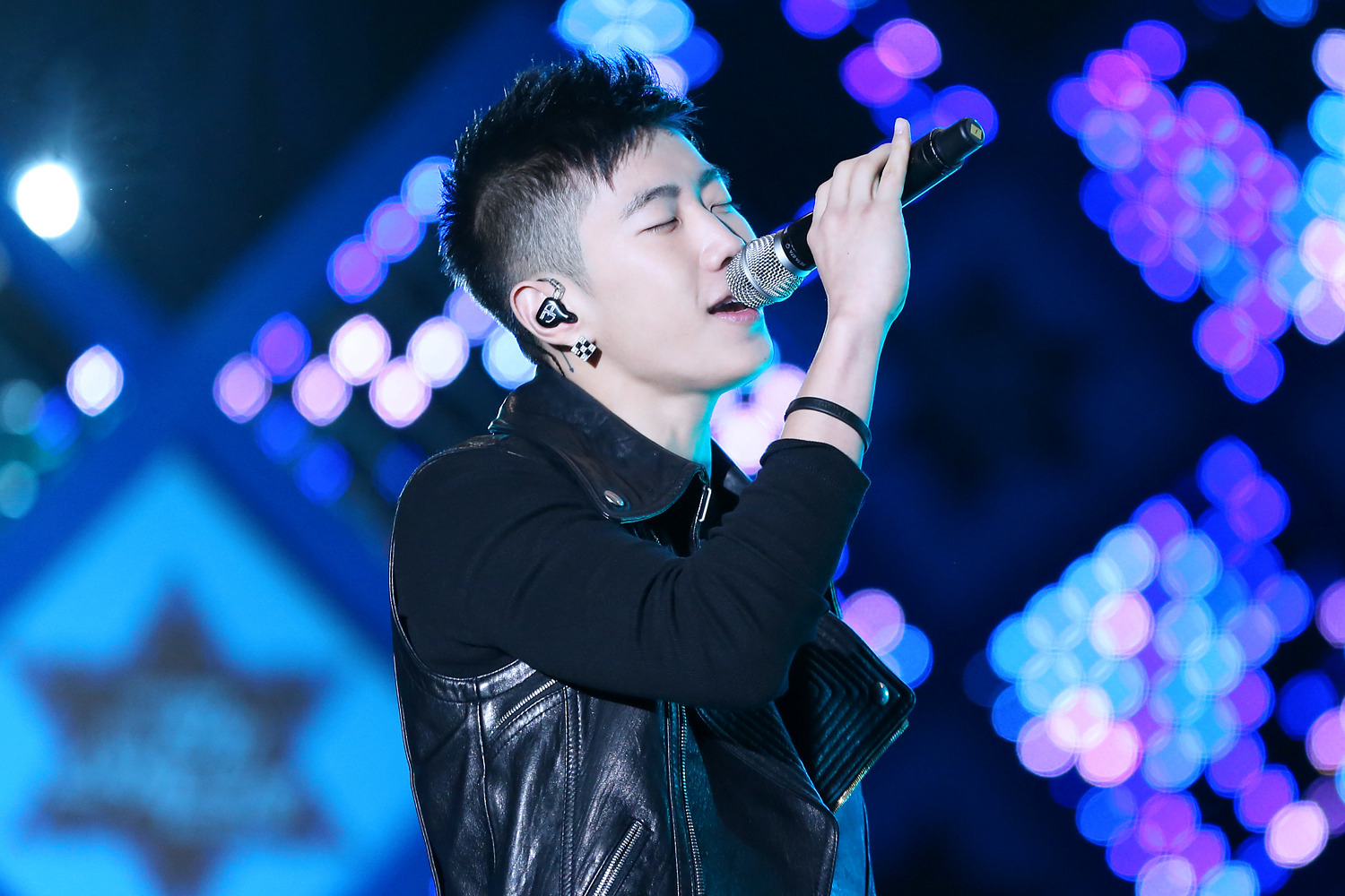 Jay Park at chin chin festival